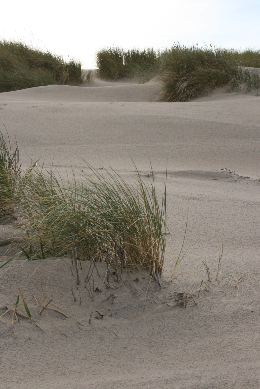 Young dune with Ammophila arenaria near Tversted, Denmark.